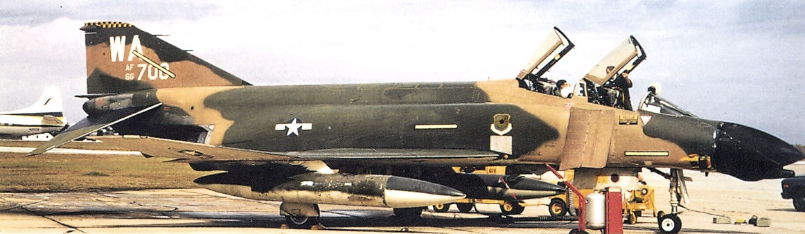 F-4D 66-8700 Fighter Weapons School Nellis AFB